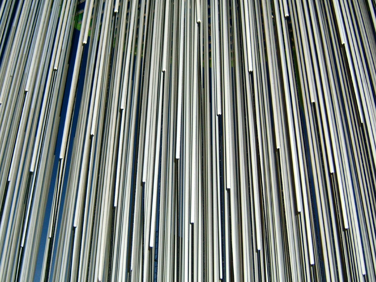 Detail of Kinetic Work "the Pearl of the Caribbean", by Jesús Soto in the City of Pampatar, Edo Nueva Esparta, Venezuela.